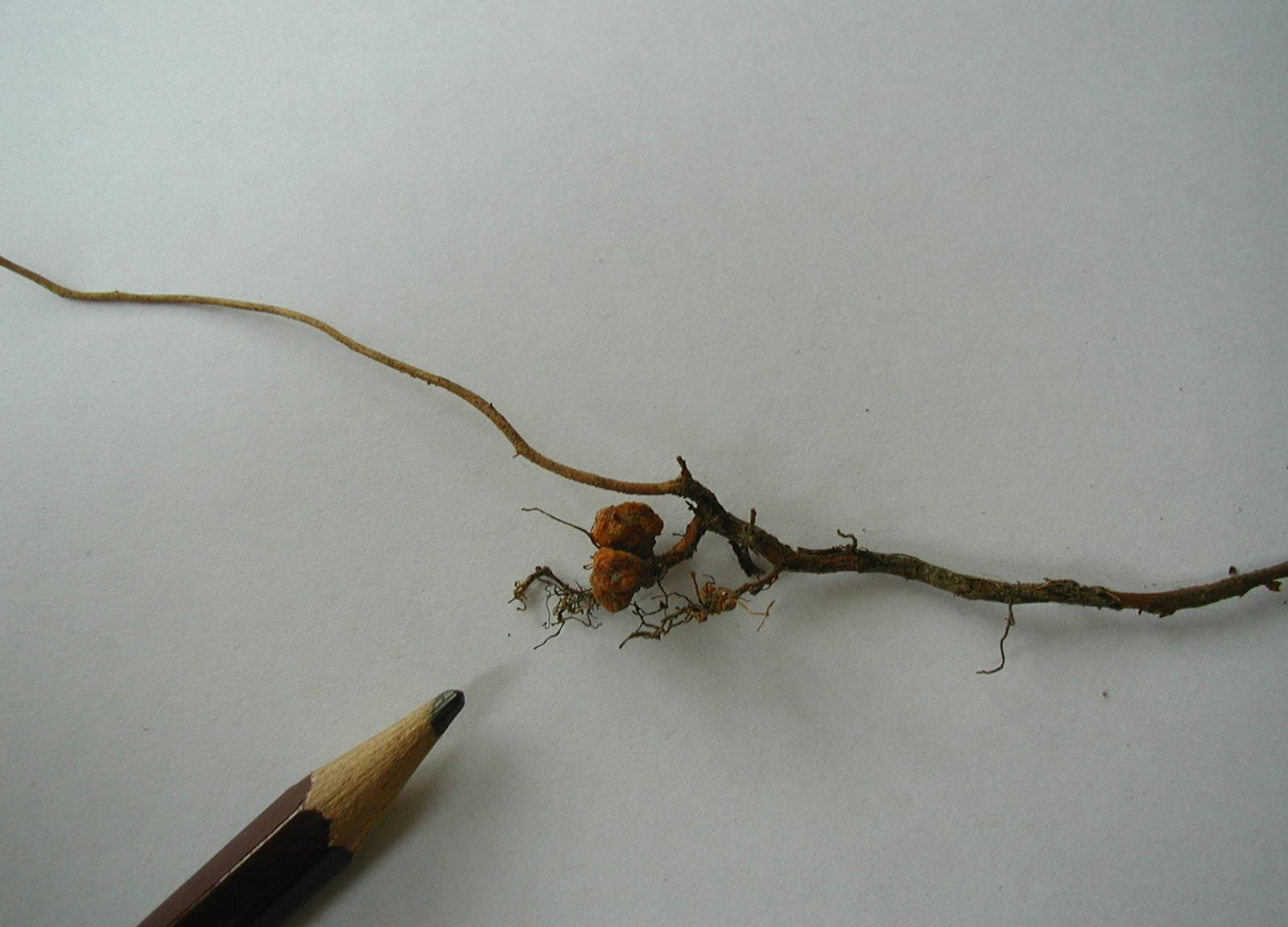 Symbiotic bacteriae on Alnus. Photo: Sten Porse